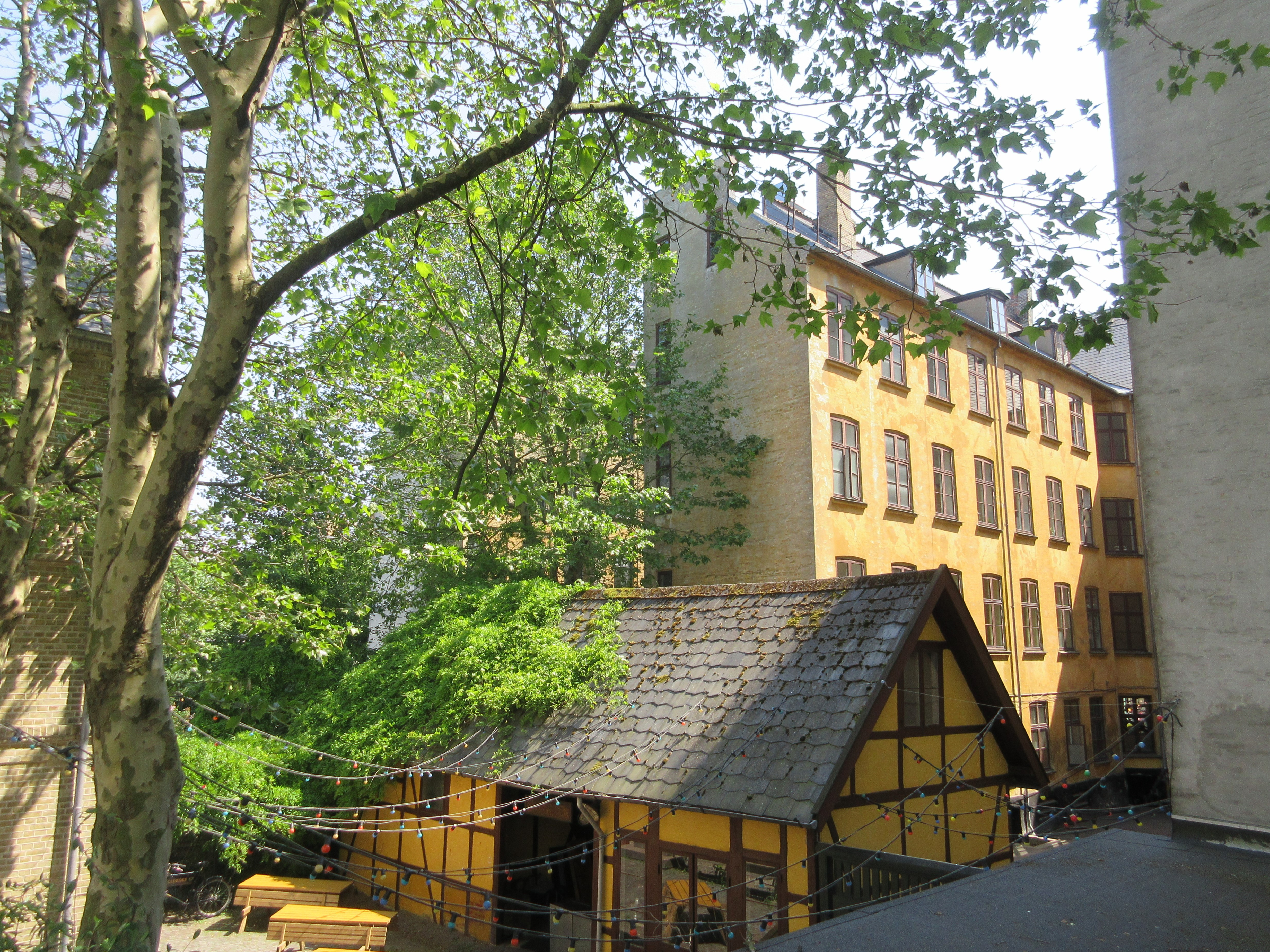 The rear side of Vesterbro Apotek in Copenhagen, Denmark